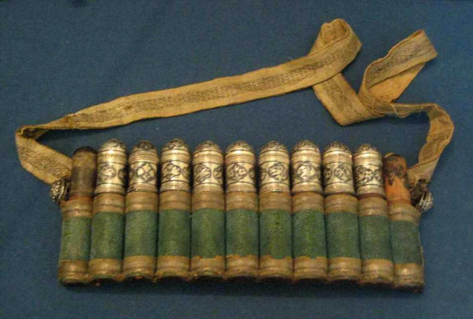 Gazyirnitsa - a bandolier for "gazyir" - caucasian cartridge. Dagestan, Kubachi, 19 century, silver